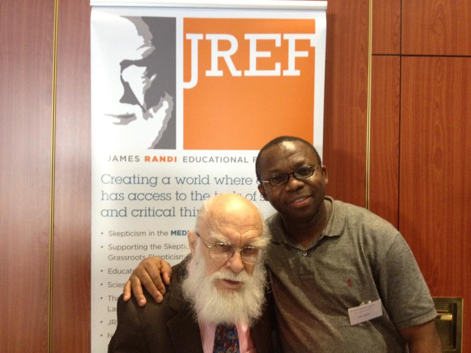 Humanist activist Leo Igwe at the Amaz!ng Meeting.